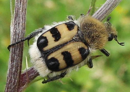 Bee beetle (Trichius fasciatus) in Cologne, Germany